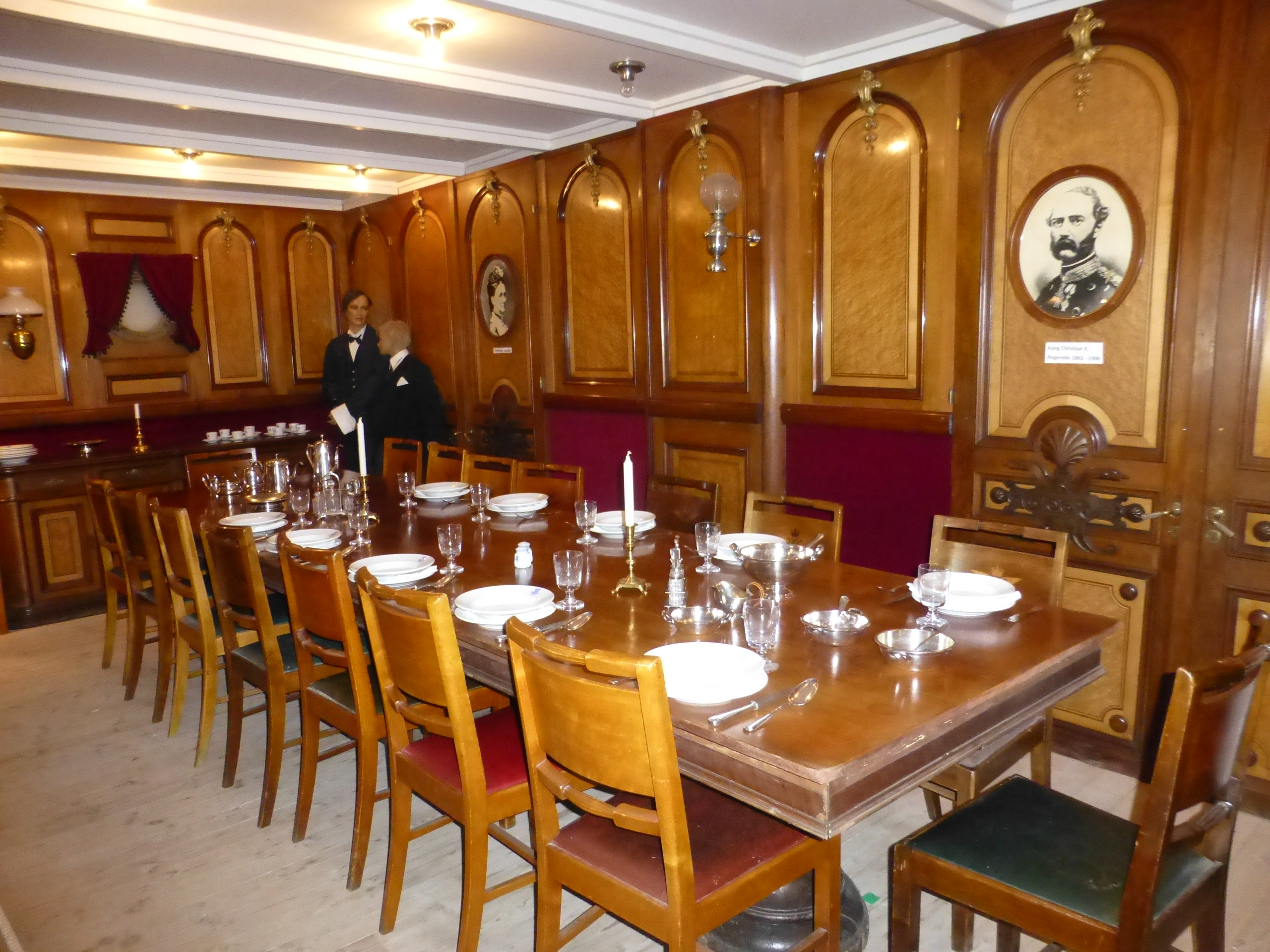 By og Overfartsmuseet in Korsør in Denmark, a museum for the town Korsør and the Great Belt Ferries. Dining hall from old Great Belt Ferry.